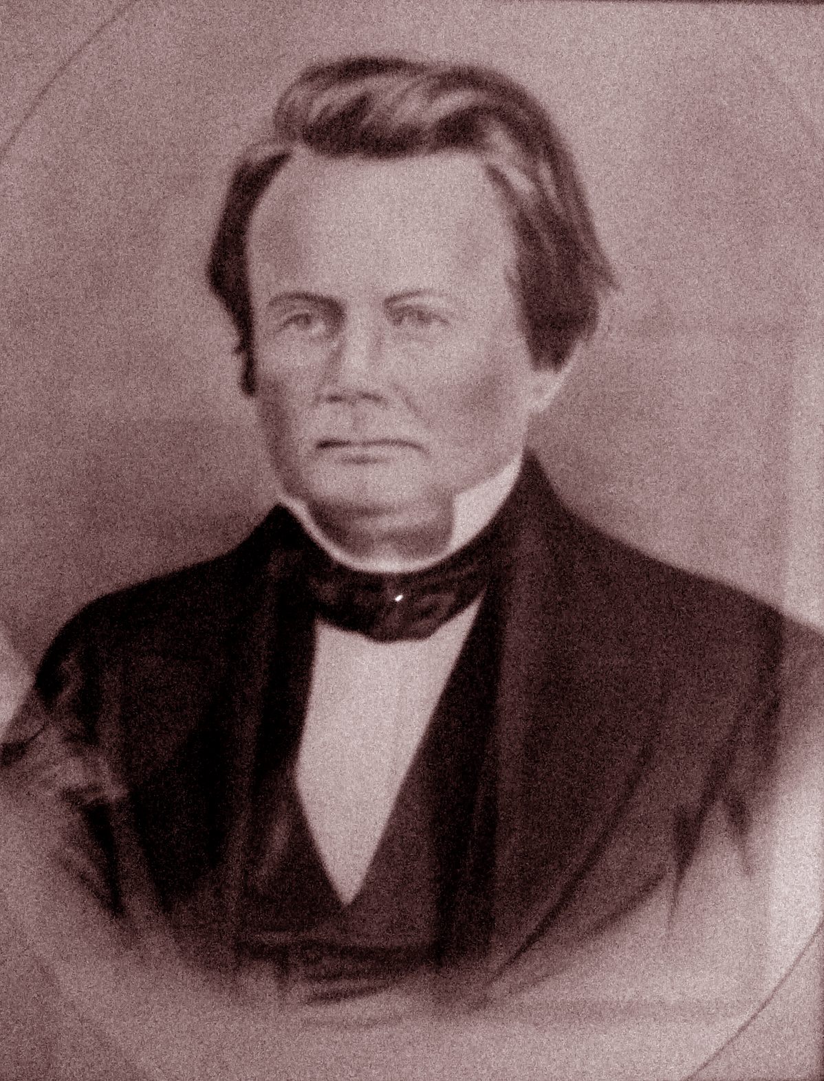 The Honorable Daniel Wallace (politician), Congressman from South Carolina.